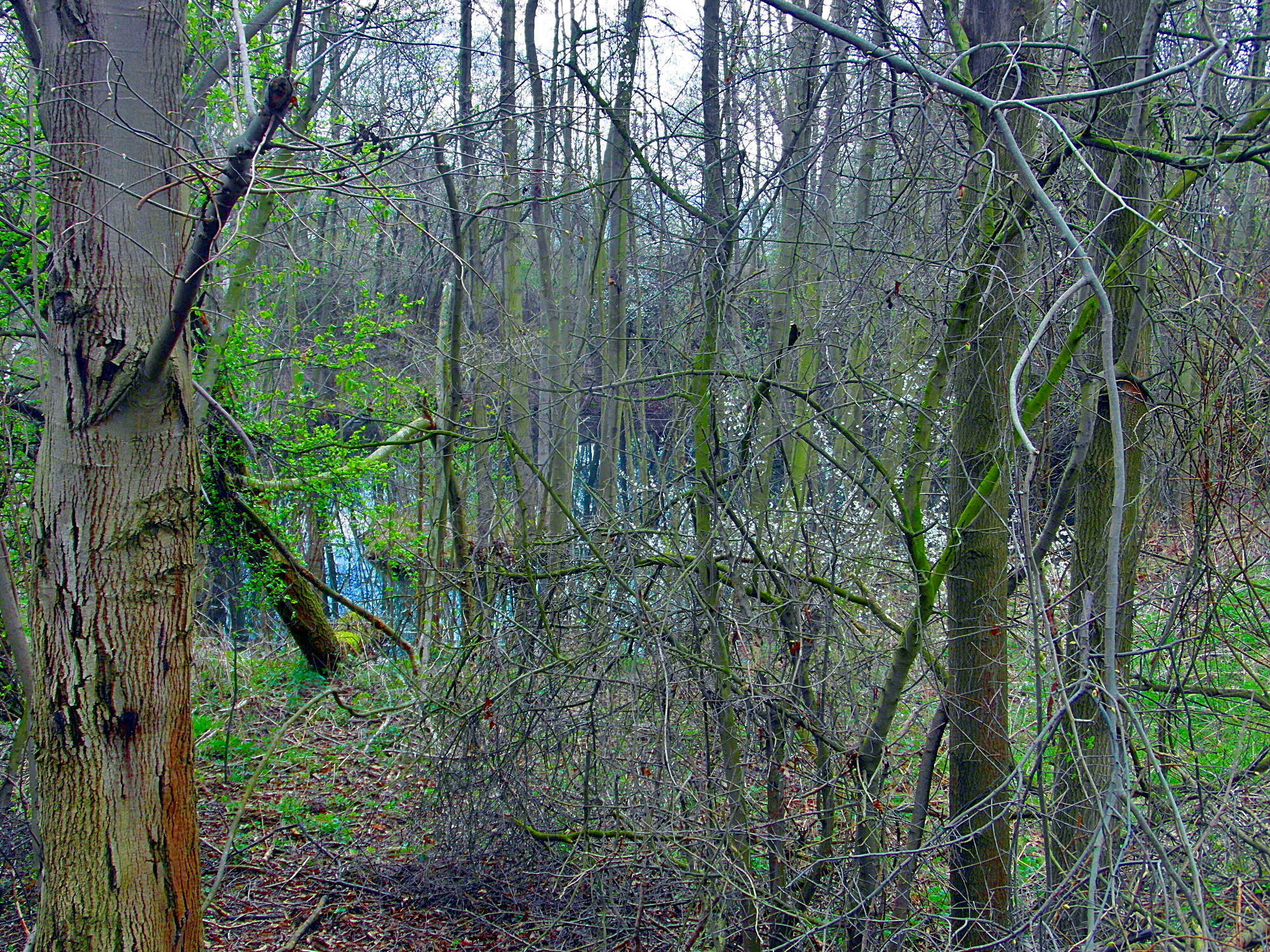 Geschützter Landschaftsbestandteil Eckerder Teiche, Region Hannover.